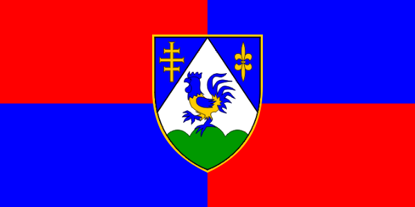 Flag of Koprivnica-Križevci County, Croatia.